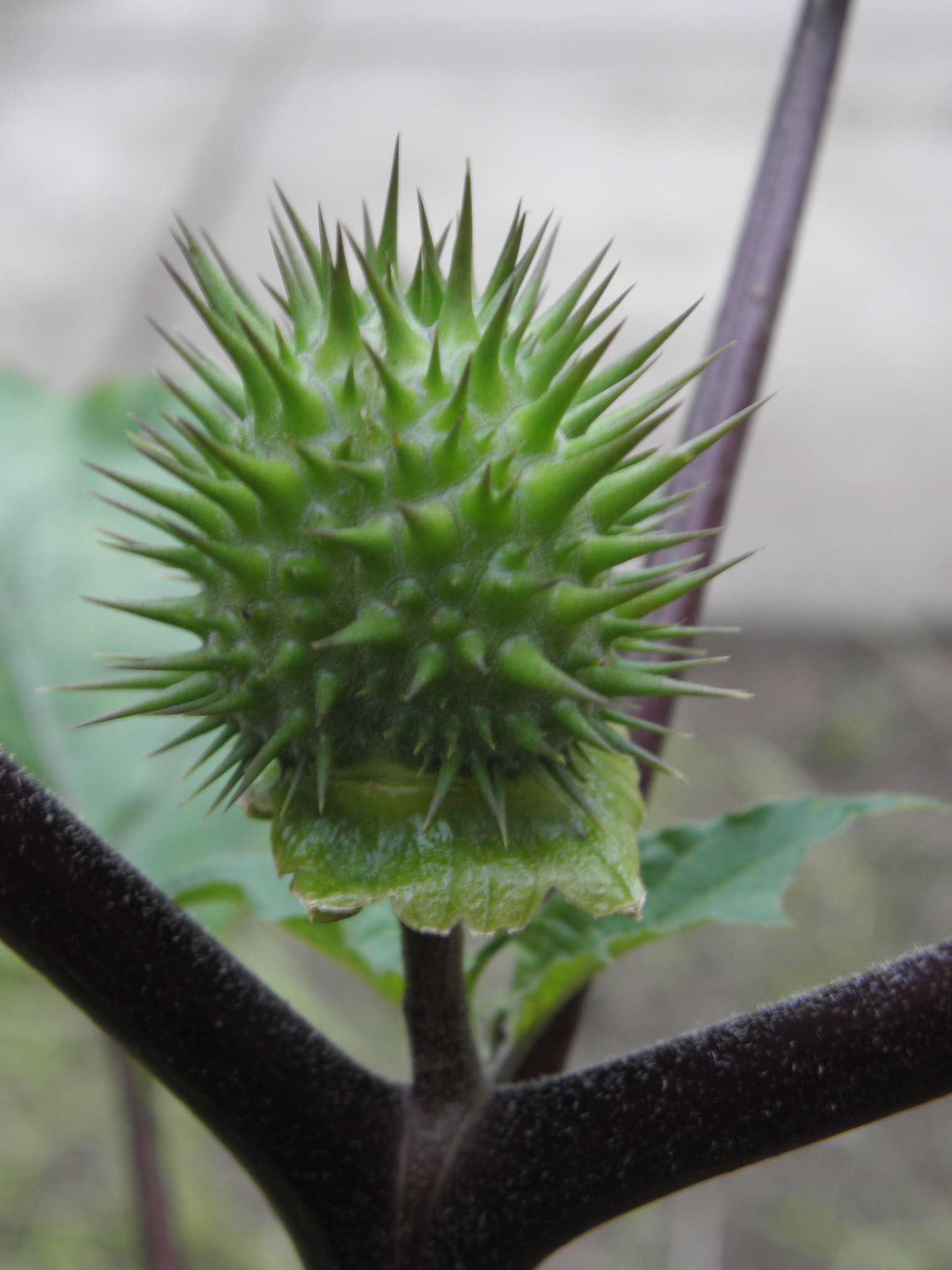 Datura stramonium var. tatula (L.) Torr apple